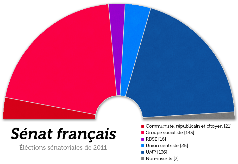 Political composition of the French Senate after the senatorial elections of september, 25 2011